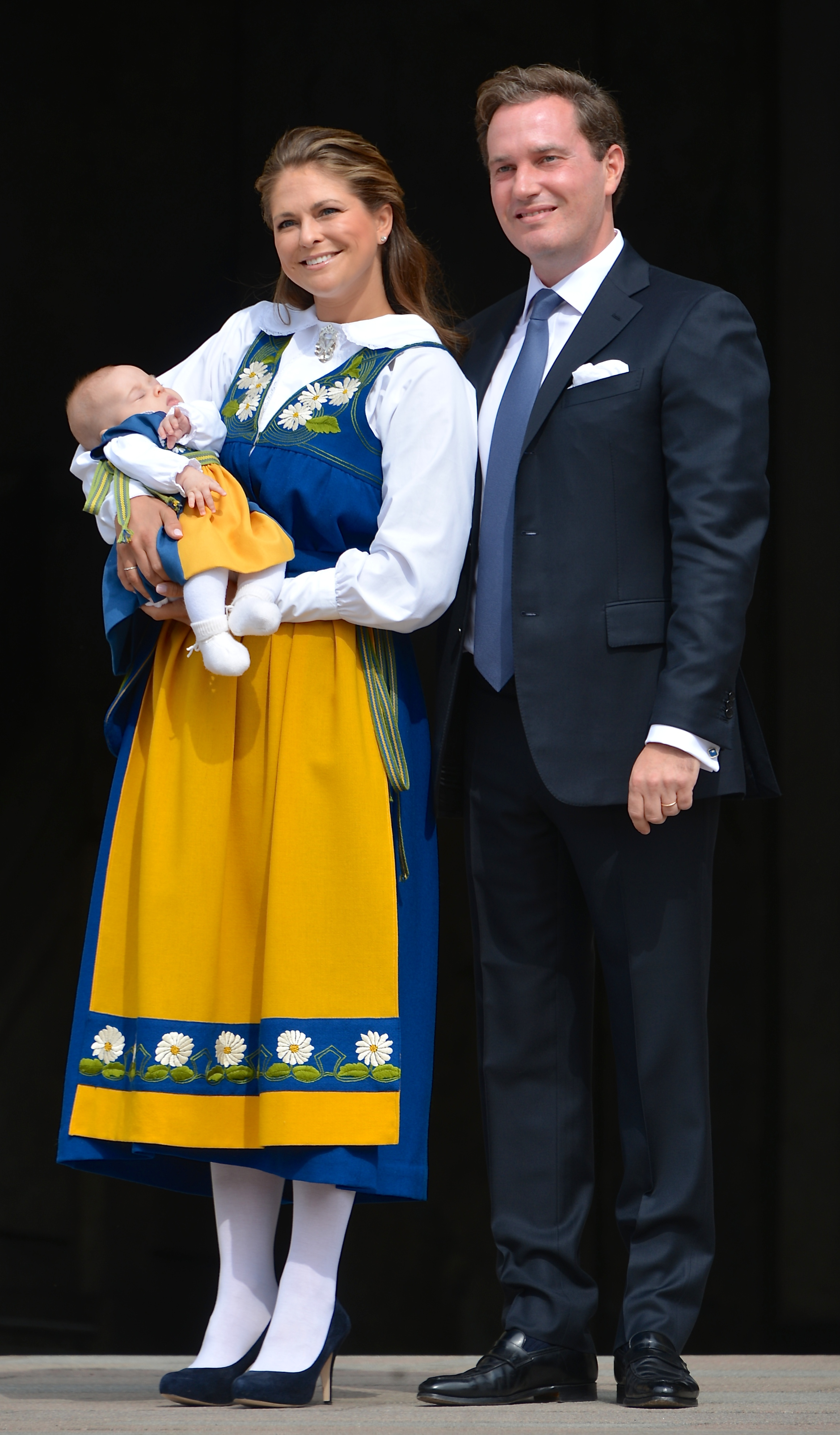 Princess Madeleine of Sweden and Christopher O'Neill on National Day June 6, 2014 in southern arch to the Royal Palace.